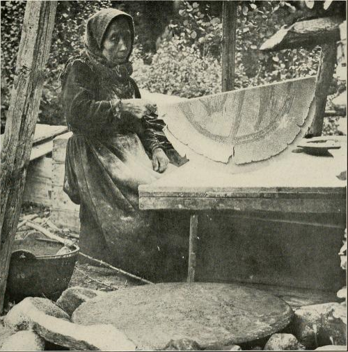 A Norwegian peasant baking flat bread